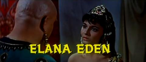 Elana Eden in cropped screenshot from the trailer for The Story of Ruth (1960).